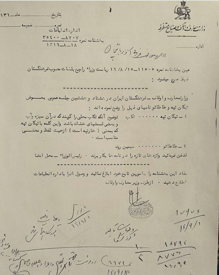 Tikan Tapa rename command